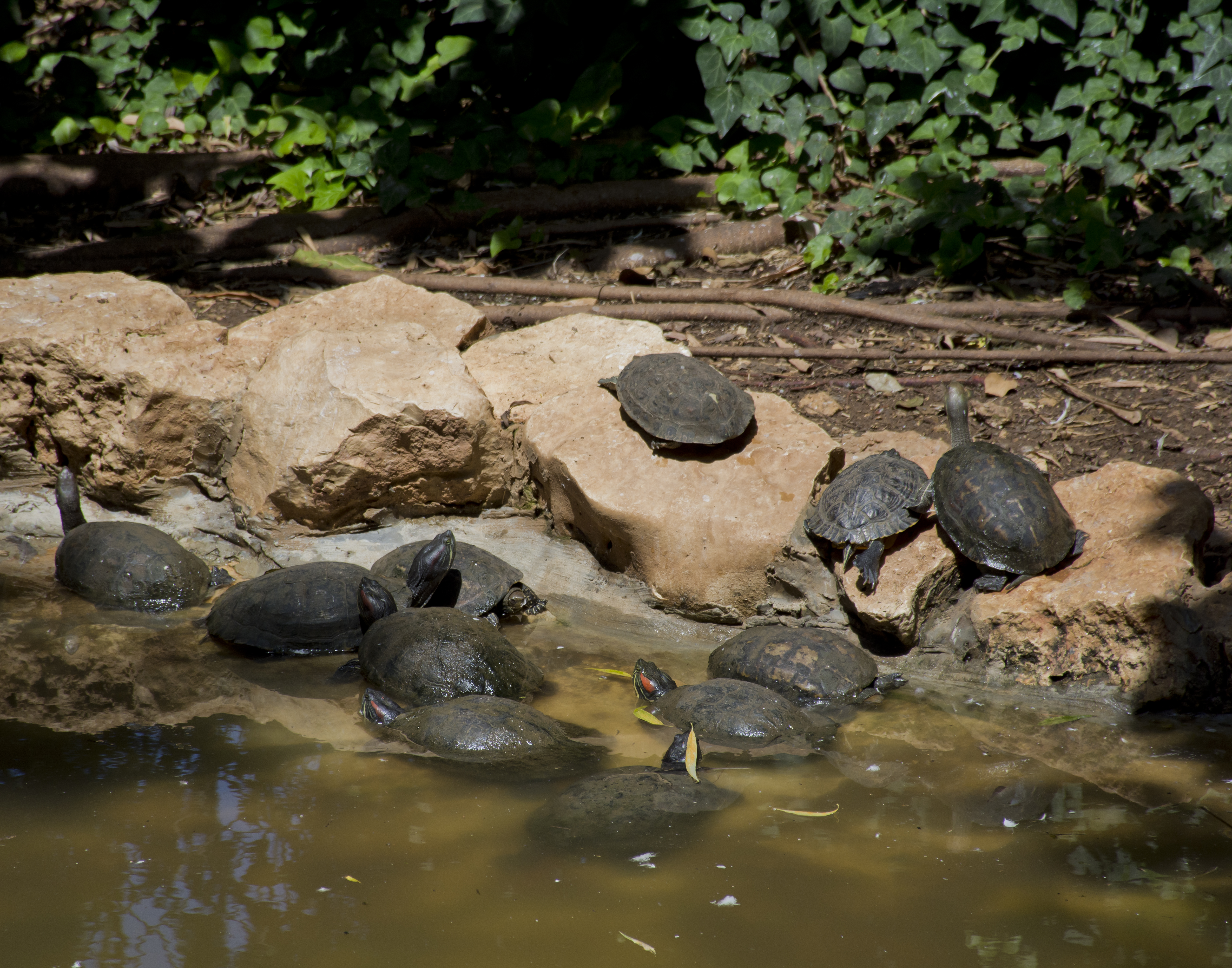 Haifa Educational Zoo, Haifa, Israel